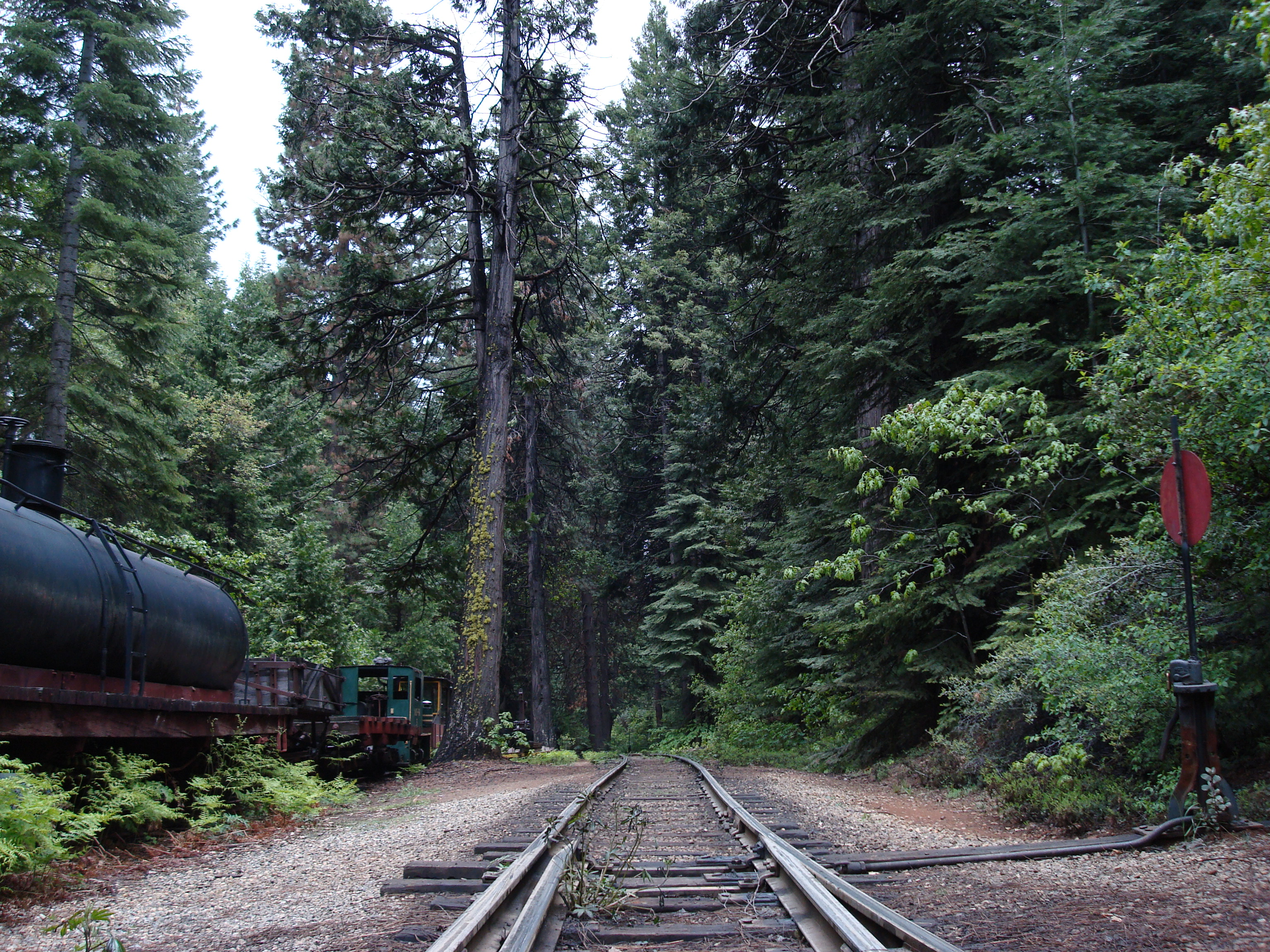 view of the Yosemite Mountain Sugar Pine Railroad looking south on tracks